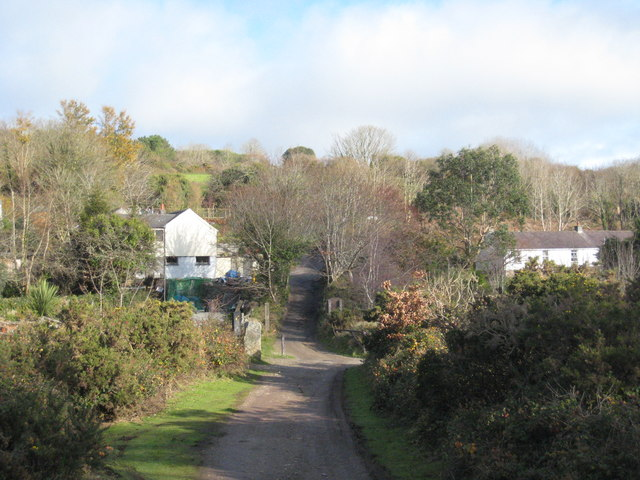 The Hamlet of Todpool At the head of the Poldice Valley.